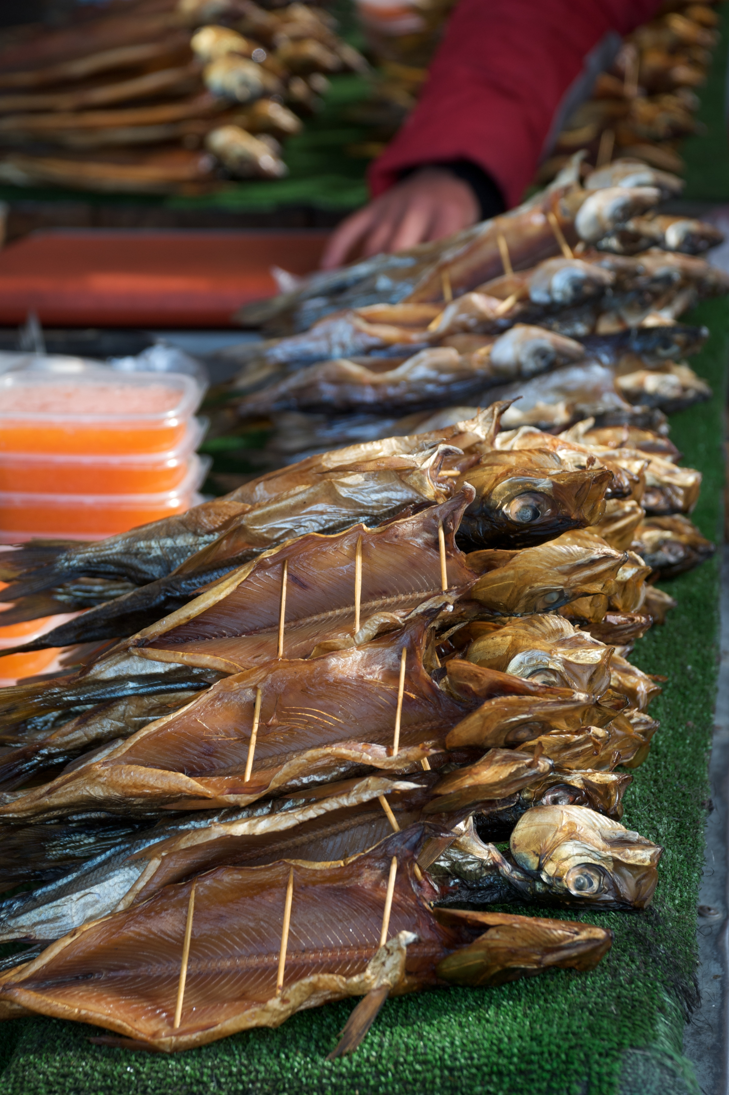 Omul fish, endemic to Lake Baikal (Russia). Smoked and on sale at market.